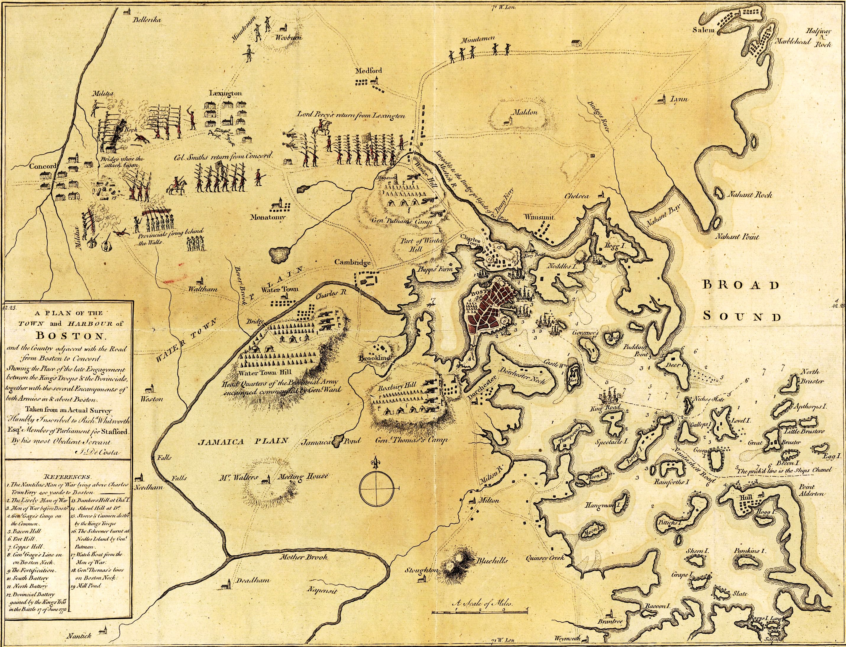 A mostly accurate hand-colored map depicting the 1775 Battles of Lexington and Concord and the Siege of Boston